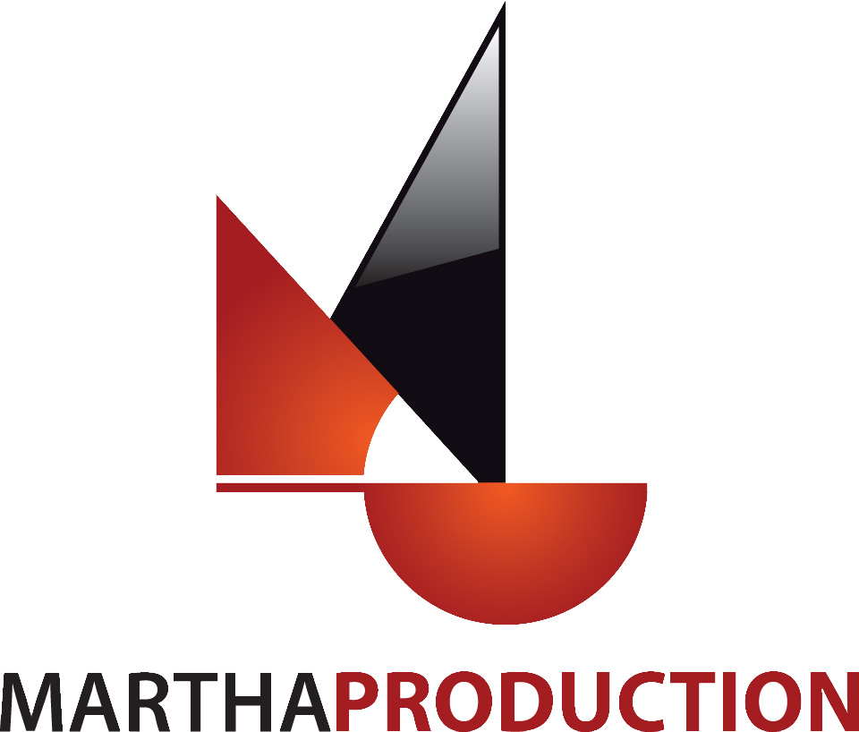 This is the official Logo of Martha Production S.r.l